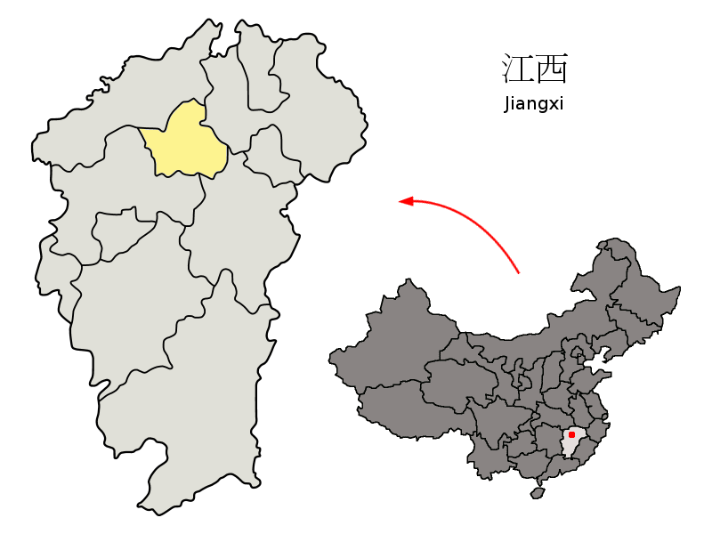 Location of Nanchang Prefecture (yellow) within Jiangxi Province of China Map drawn in december 2007 using various sources, mainly : Jiangxi Province administrative regions GIS data: 1:1M, County level, 1990 Jiangxi Counties map from